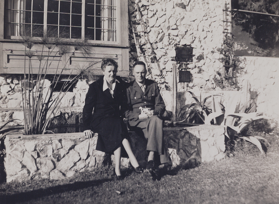 Title Esther & ChesterSummary Photograph showing Chester Arthur III, in uniform, and Esther Arthur sitting on a rock wall.Created / Published [1942]Subject Headings - Arthur, Chester Alan,--III,--1901-1972--Family - Arthur, Chester Alan,--III,--1901-1972--Military service - Arthur, Esther Murphy - Couples--1940-1950 Format Headings Photographic prints--1940-1950. Genre Photographic prints--1940-1950 Notes - Title from item. - Forms part of: Arthur family papers (Library of Congress). - Accession box no. PR 13 CN 1976:027 C13 album 6 Medium 1 photographic print. Call Number/Physical Location Unprocessed in PR 13 CN 1976:027, album 7, [l. 18] [P&P]Repository Library of Congress Prints and Photographs Division Washington, D.C. 20540 USA Id ds 00017 //hdl.loc.gov/loc.pnp/ds.00017 Library of Congress Control Number 2010650548Reproduction Number LC-DIG-ds-00017 (digital file from original item)Rights Advisory Rights status not evaluated. For general information see "Copyright and Other Restrictions...," Format image Description 1 photographic print. | Photograph showing Chester Arthur III, in uniform, and Esther Arthur sitting on a rock wall. LCCN Permalink Additional Metadata Formats MARCXML Record MODS Record Dublin Core Record